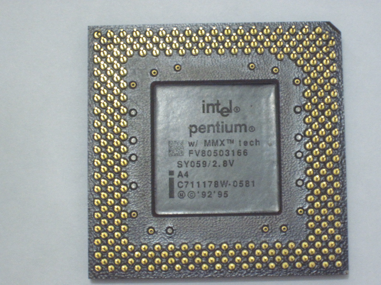 Intel Pentium MMX microprocessor